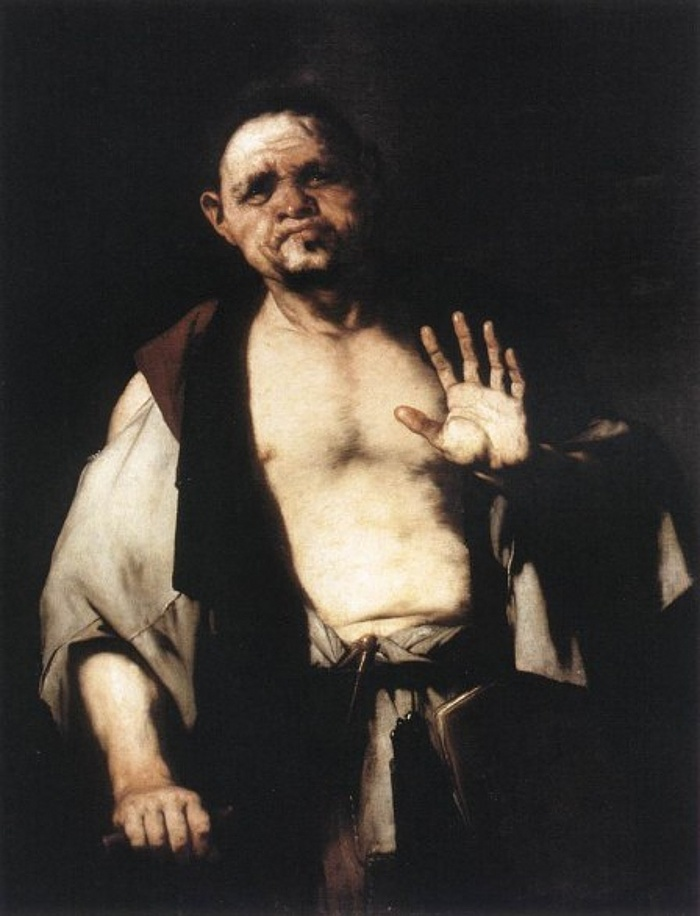 Crates